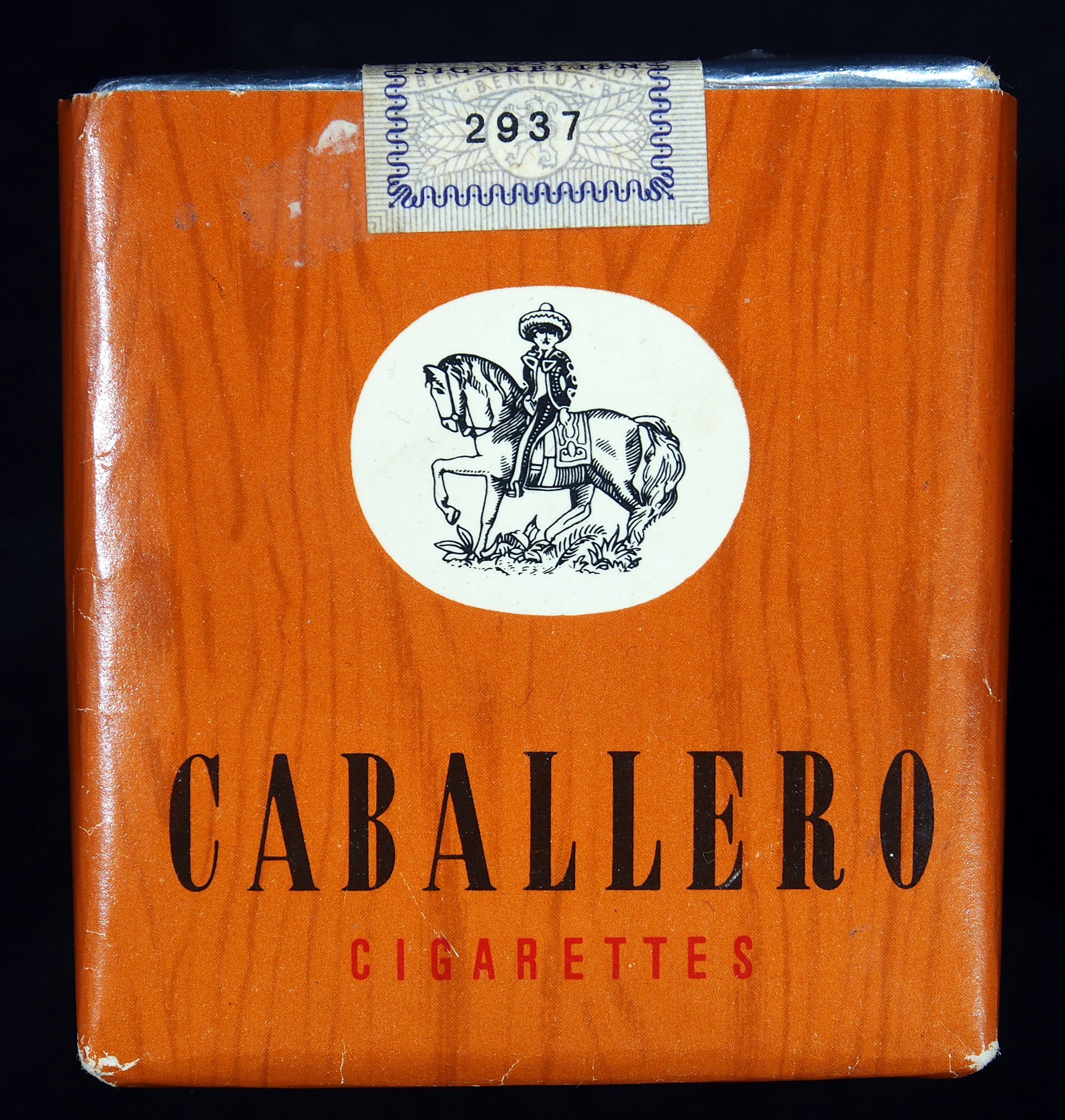 Very old packaging that is not produced and/or not sold any more.